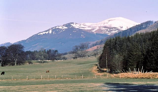 Glen Lyon, near Balintyre The view up valley towards the snow capped Carn Gorm.